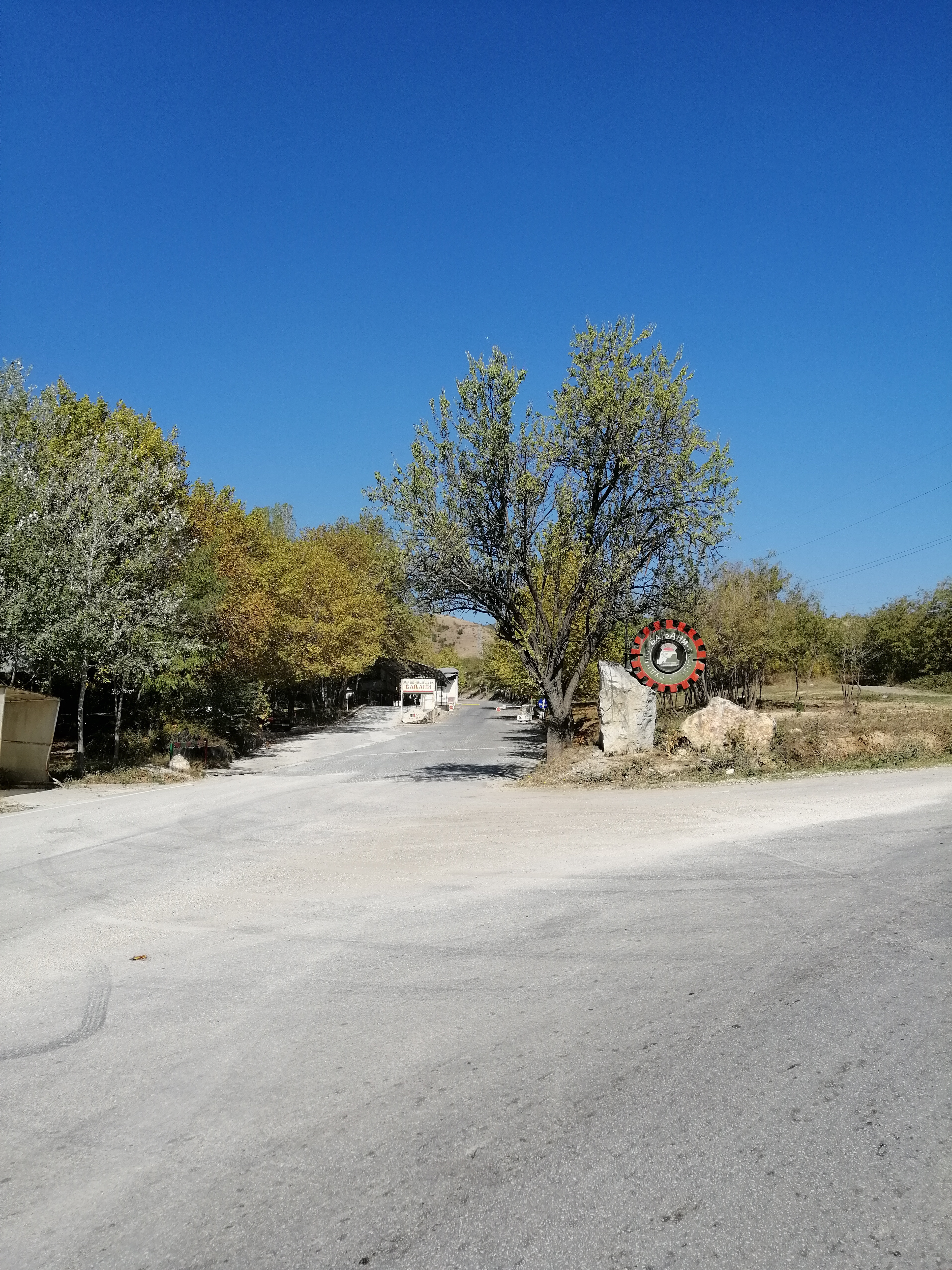 Entrance of mine Banjane